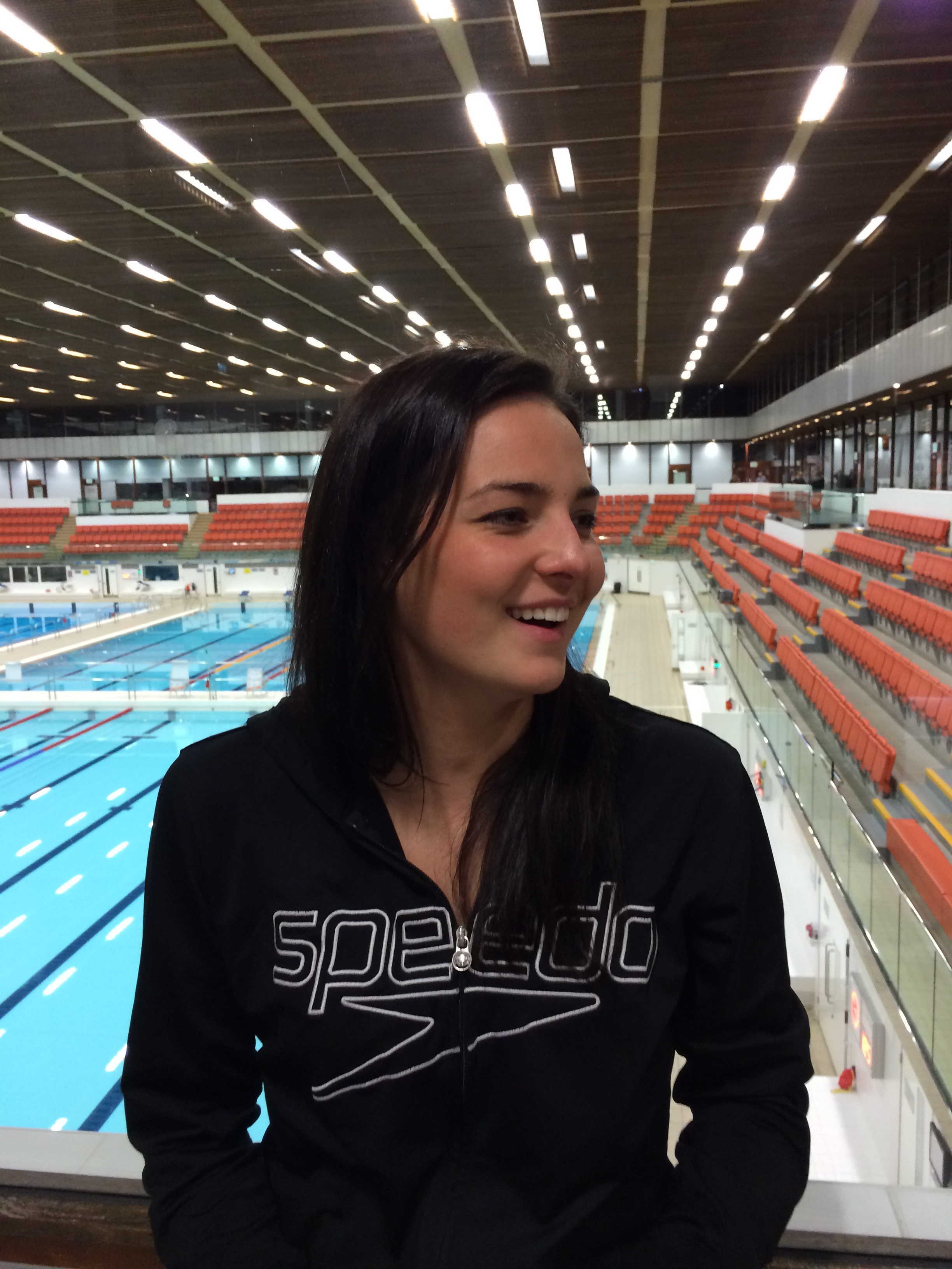 Kedri-Anne Payne in 2013. Taken at the Royal Commonwealth Pool, Edinburgh, UK during the Warrender Baths Club 125 year anniversary gala.